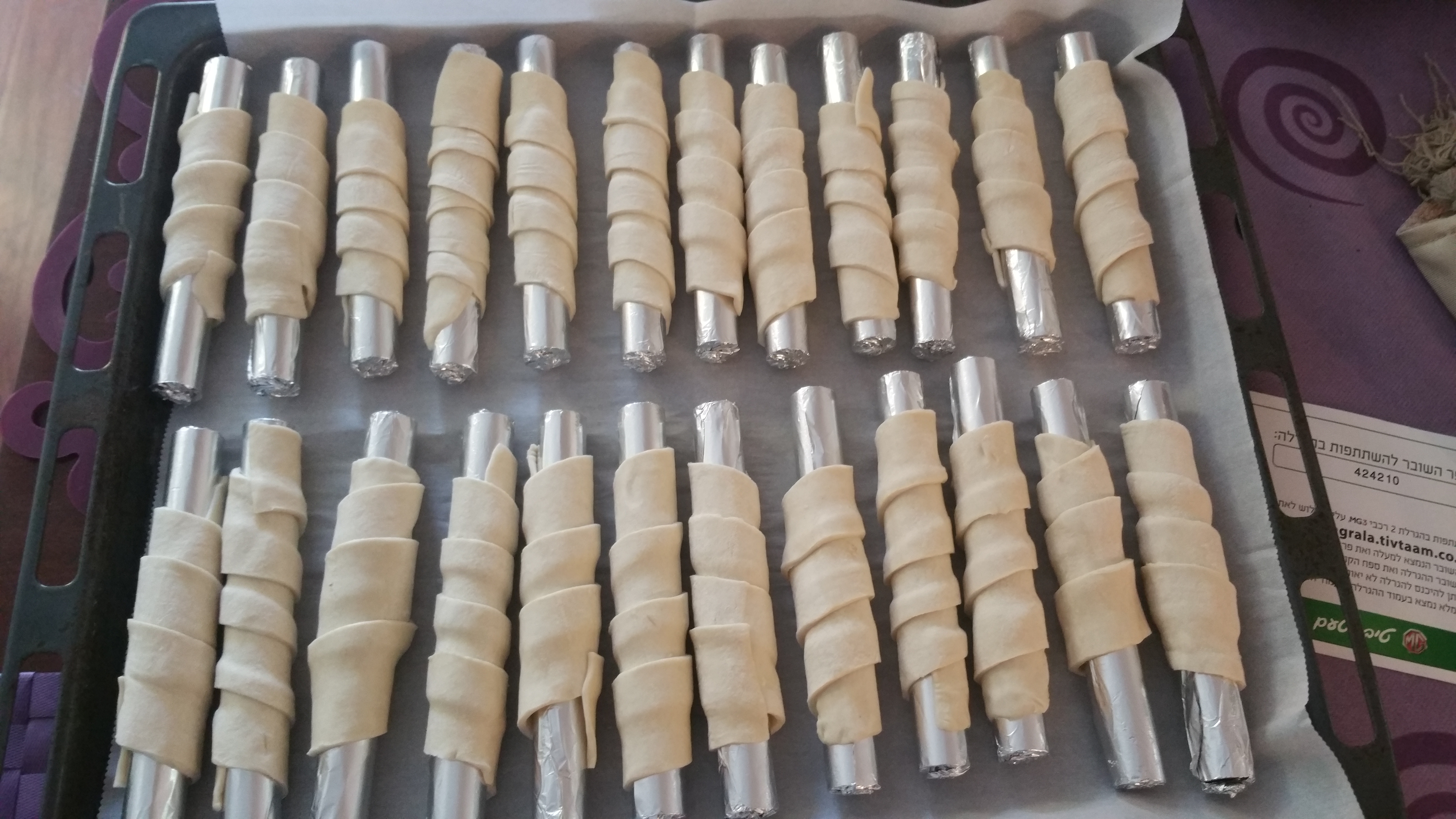 The making process of the Schaumrolles (a.k.a. foam rollers or Schillerlocken). Schaumrolles are made from Phileas Dough, which was cut into stripes and rolled in an angle on an elongated, rounded pieces of wood. The pieces of would can be made in advance by cutting a broomstick into smaller pieces, and wrapping them in aluminium foil. Before wrapping the dough stripes, slightly oil the foil. Baked till they get golden. When ready, take out of the oven and take out the wood stick. The Schaumrolles are then injected with whipped cream, whipped with milk, vanilla sugar and instant vanilla pudding. Sprinkled with sugar dust, as can be seen in the picture "ready to eat Schaumrolle - part 2". Better to be eaten after refrigerated on the day of making, otherwise the dough becomes a bit soggy.